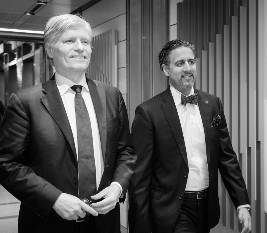 Ola Elvestuen and Abid Raja at Governor Øystein Olsen's annual address in February 2018